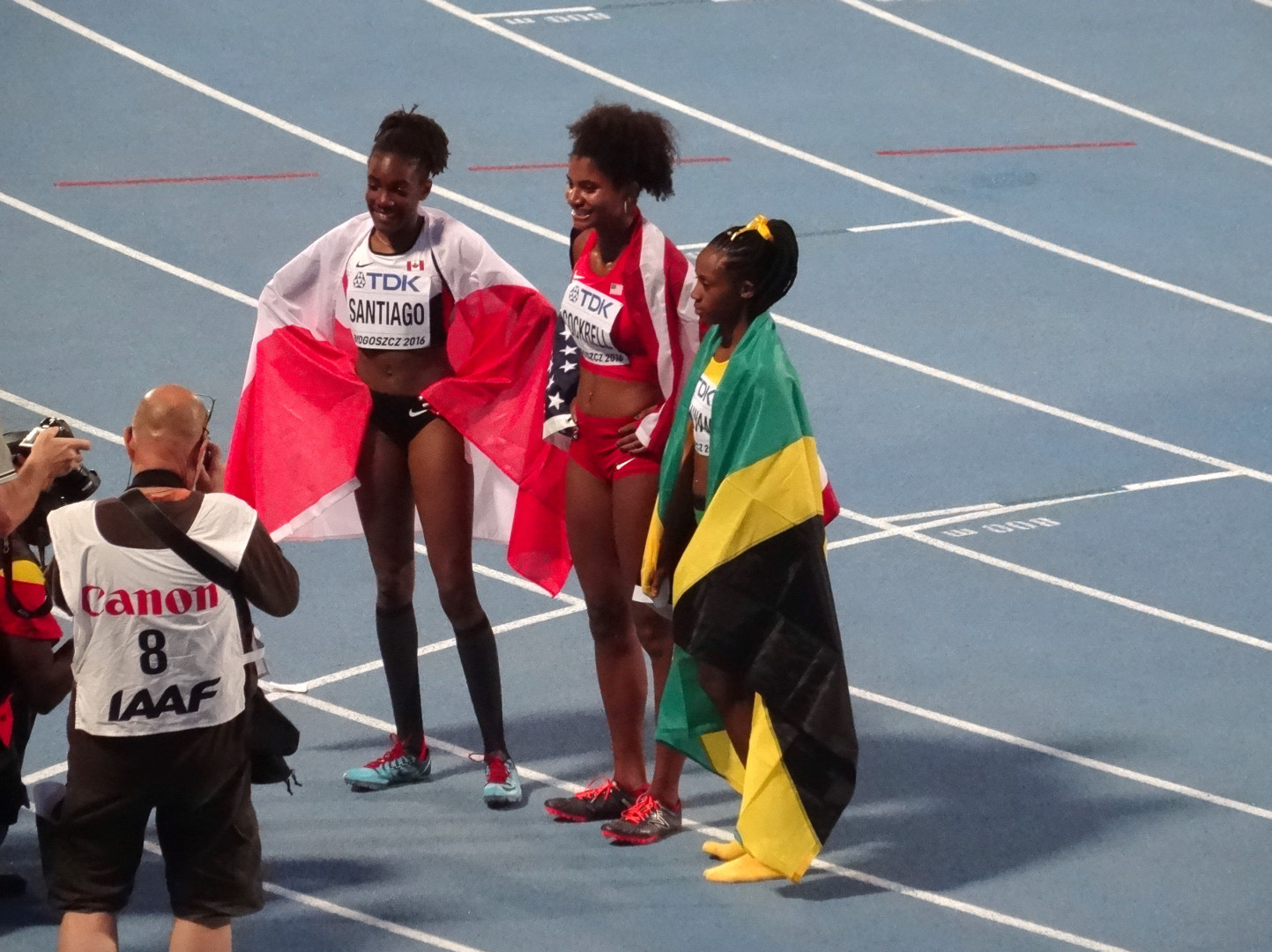 2016 IAAF World U20 Championships in Bydgoszcz, 400m hurdles women final